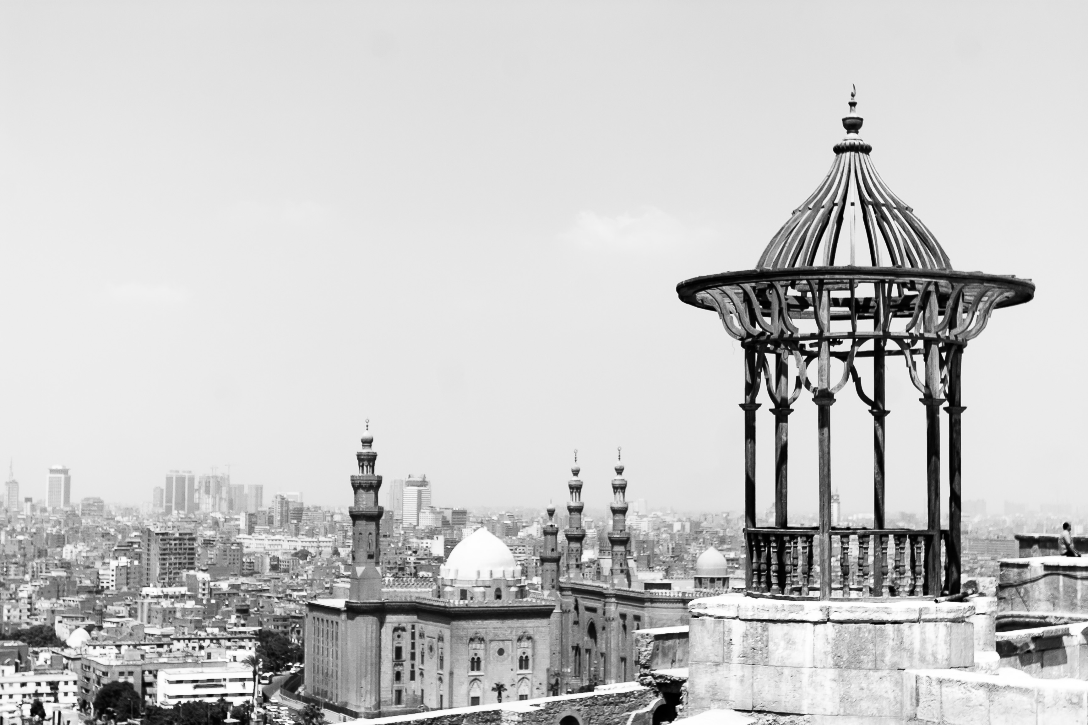 Cairo is the capital of Egypt and the largest city in the Middle-East and second-largest in Africa after Lagos. Its metropolitan area is the 16th largest in the world. Located near the Nile Delta,[1][2] it was founded in AD 969. Nicknamed "the city of a thousand minarets" for its preponderance of Islamic architecture, Cairo has long been a center of the region's political and cultural life. Cairo was founded by the Fatimid dynasty in the 10th century CE, but the land composing the present-day city was the site of national capitals whose remnants remain visible in parts of Old Cairo. Cairo is also associated with Ancient Egypt as it is close to the ancient cities of Memphis, Giza and Fustat which are near the Great Sphinx and the pyramids of Giza.